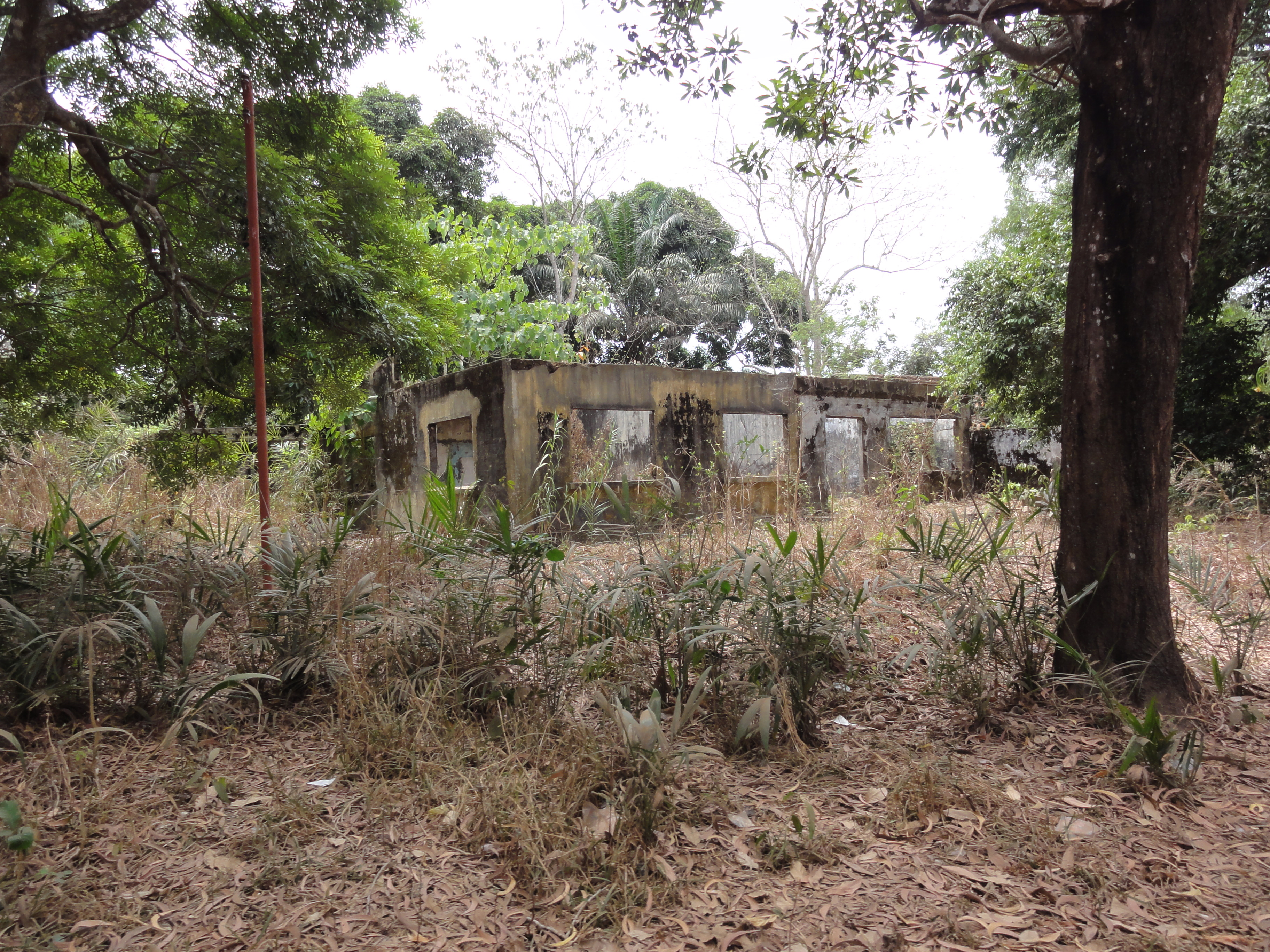 War affected buildings at SLARI's rice research station in Rokupr, Sierra Leone